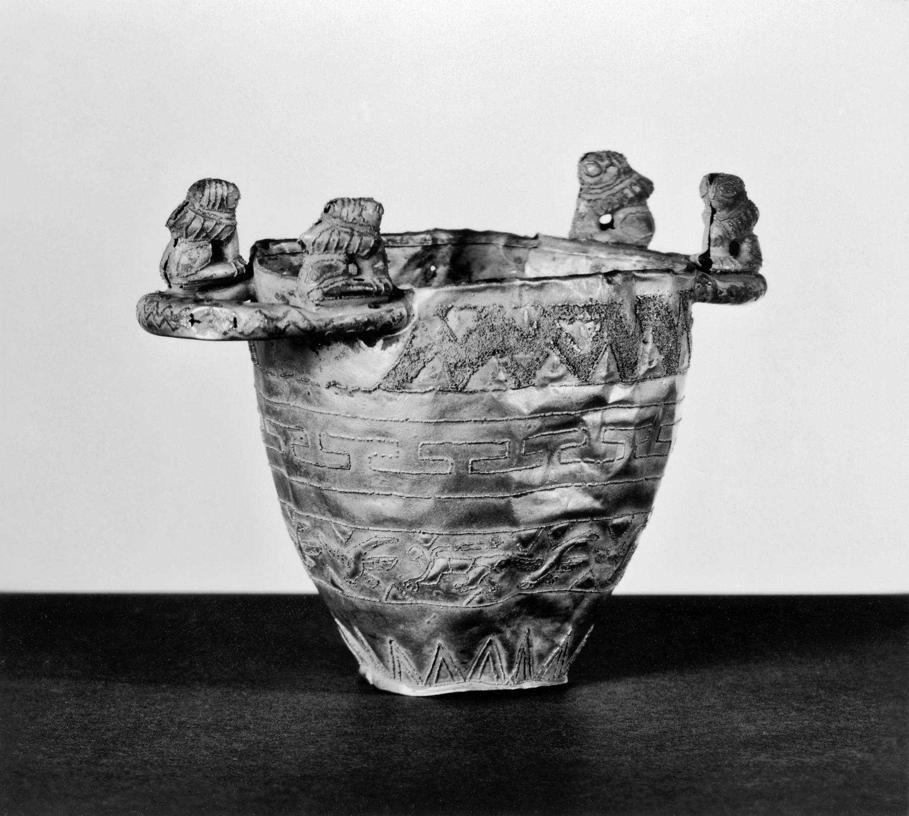 The 7th and early 6th centuries BC are known as the Orientalizing period because of the many eastern, or "Oriental," elements in the art. In this prosperous era of international trade, Etruscan artists manufactured luxury goods, such as those seen in this case, that reflect influences from the art of the eastern Mediterranean. This bowl features friezes of geometric patterns and one of flying birds and an animal, perhaps a lion. The bowl's two horizontal loop handles and the hollow, crouching sphinxes on them are characteristically Etruscan.